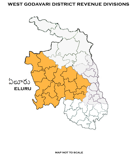 Eluru revenue division in West Godavari district